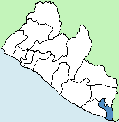 Map showing location of Maryland County in Liberia